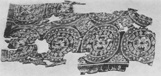 A band of inscriptions usually on textiles is called the tiraz. This cloth inscription is embroidered in split stitch, with yellow silk on the red ground. Before being sown, the inscription was dotted with ink on the fabric. Florence Day dates this tiraz inscription to the time of the Umayyad caliph Marwan I, i.e., Marwan ibn al-Hakam (64-65 AH / 684-85 CE). This dating makes it the earliest known Islamic textile. Location: The Whitworth Art Gallery, Manchester.